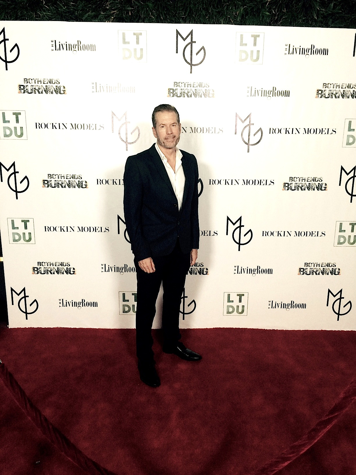 Brent Huff at the Los Angeles Premiere of Chasing Beauty.